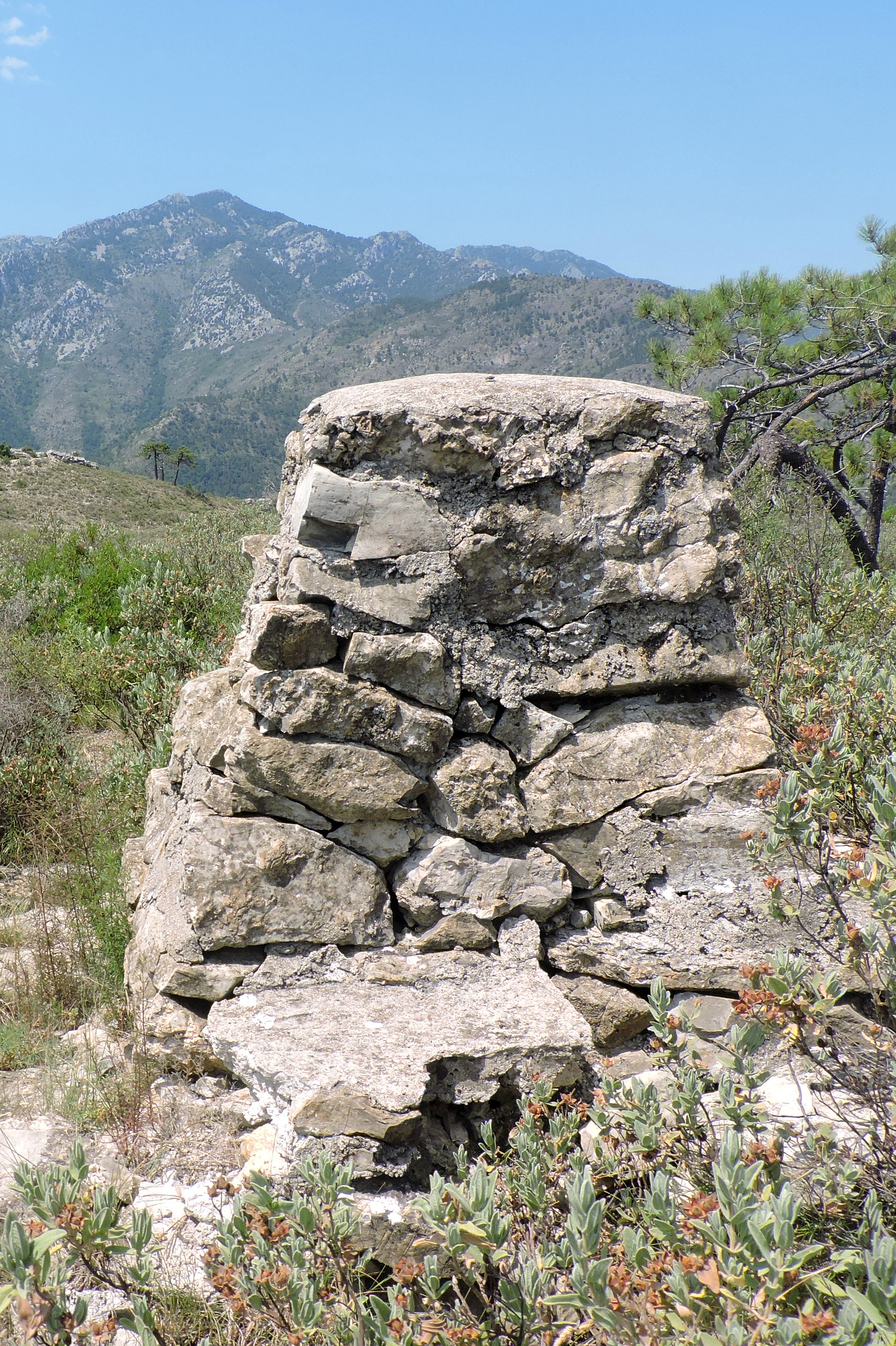 Monte Pozzo (Liguria, Italy): geodetic control point, in the background the Monte Grammondo